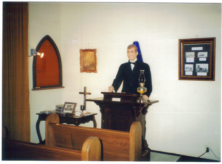 I took photo, Aug. 4, 2000.Billy Hathorn (talk) 23:46, 2 July 2008 (UTC)